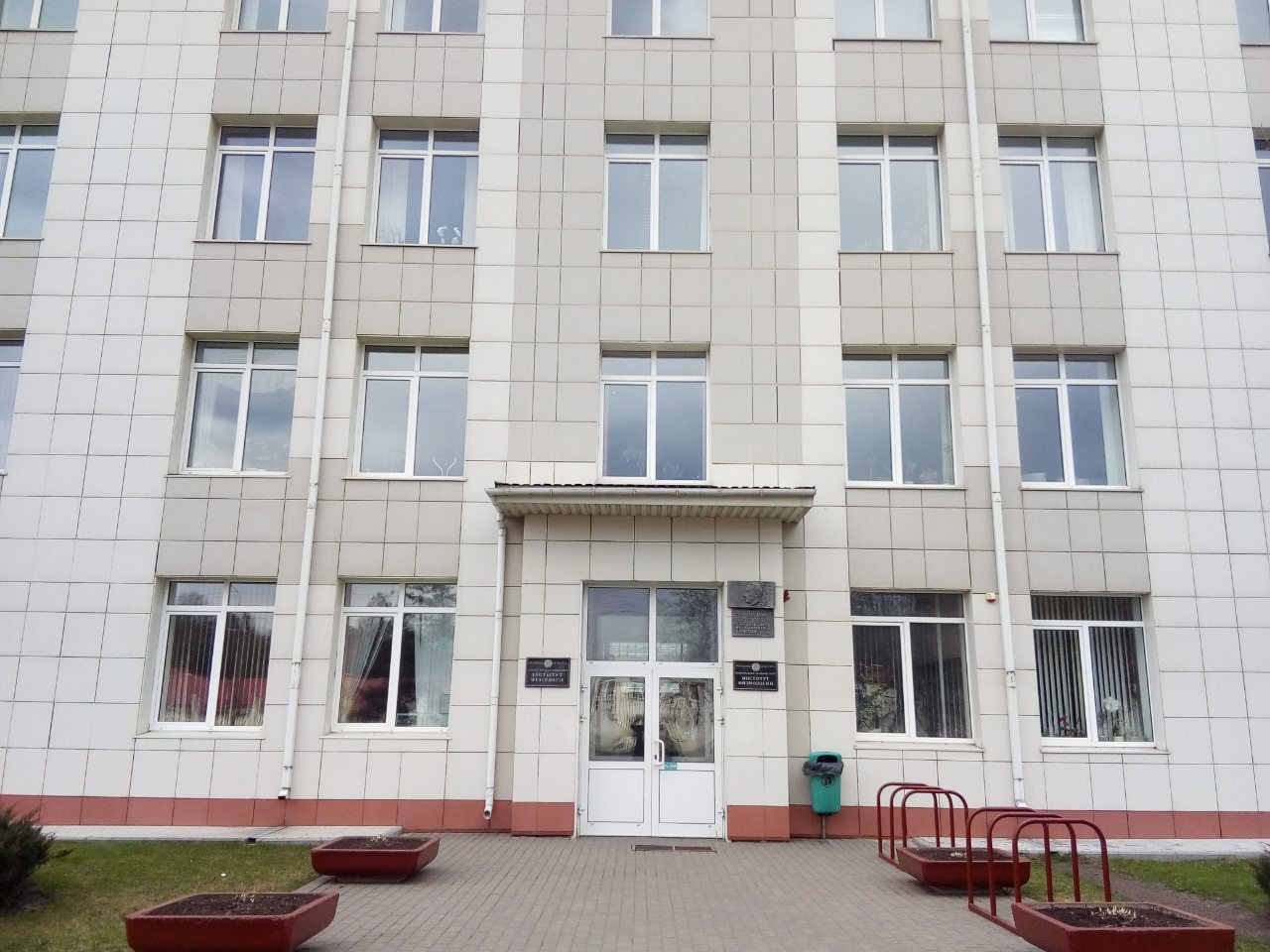 Entrance to the Institute of Physiology of the National Academy of Sciences of Belarus (28 Akademičnaja Street, Minsk; 20th of April, 2019)